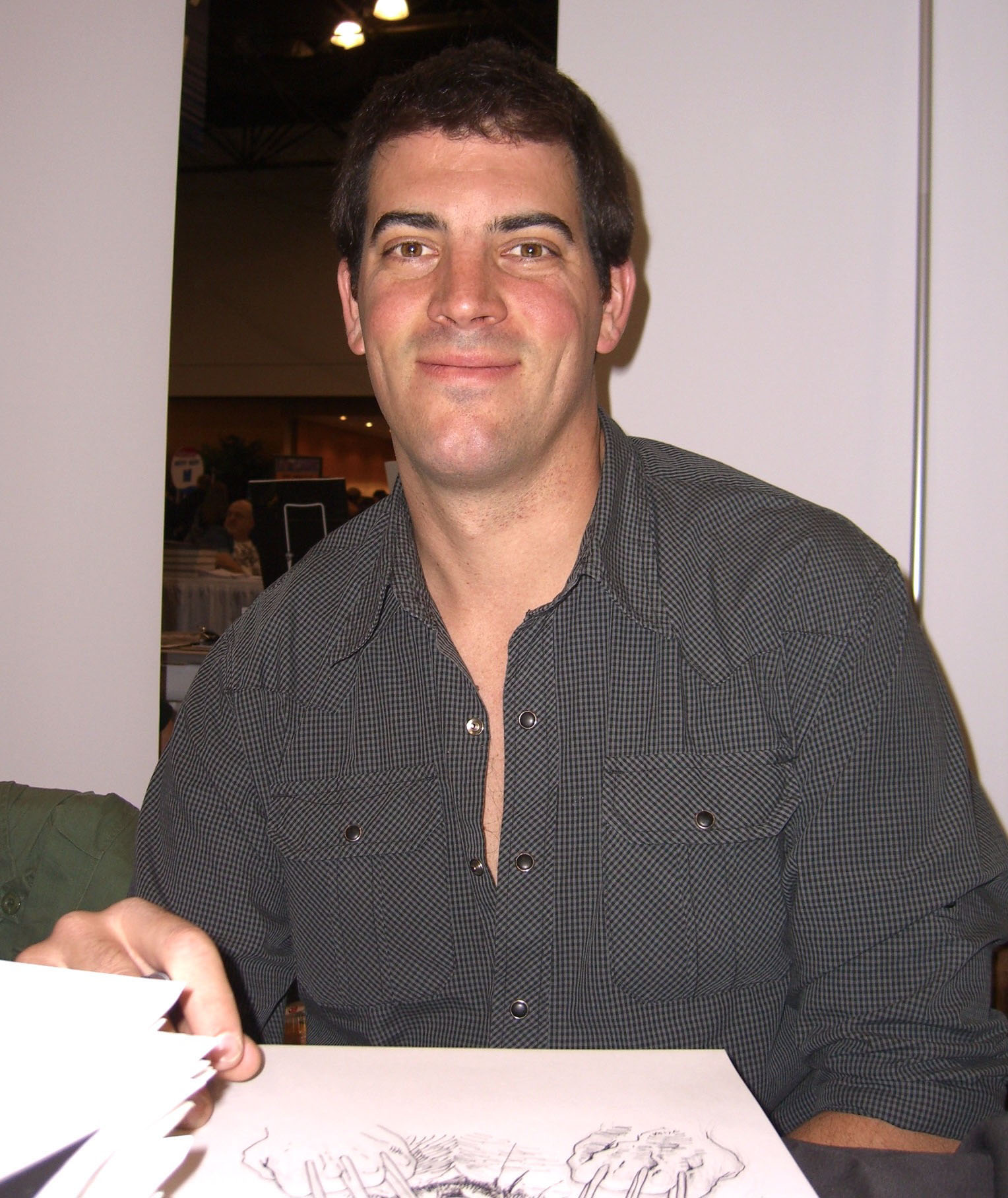 Comic book creator Leandro Fernández, at the New York Comic Convention in Manhattan, October 10, 2010. Photo by Luigi Novi. This photo may be used, modified and published for any purpose, only if a easily visible credit to the photographer is placed near the photo in each instance in which it is used. (See licensing information below.) Publication of this photo without this proper attribution constitute copyright infringement. For more information on my photos, you can contact me here.